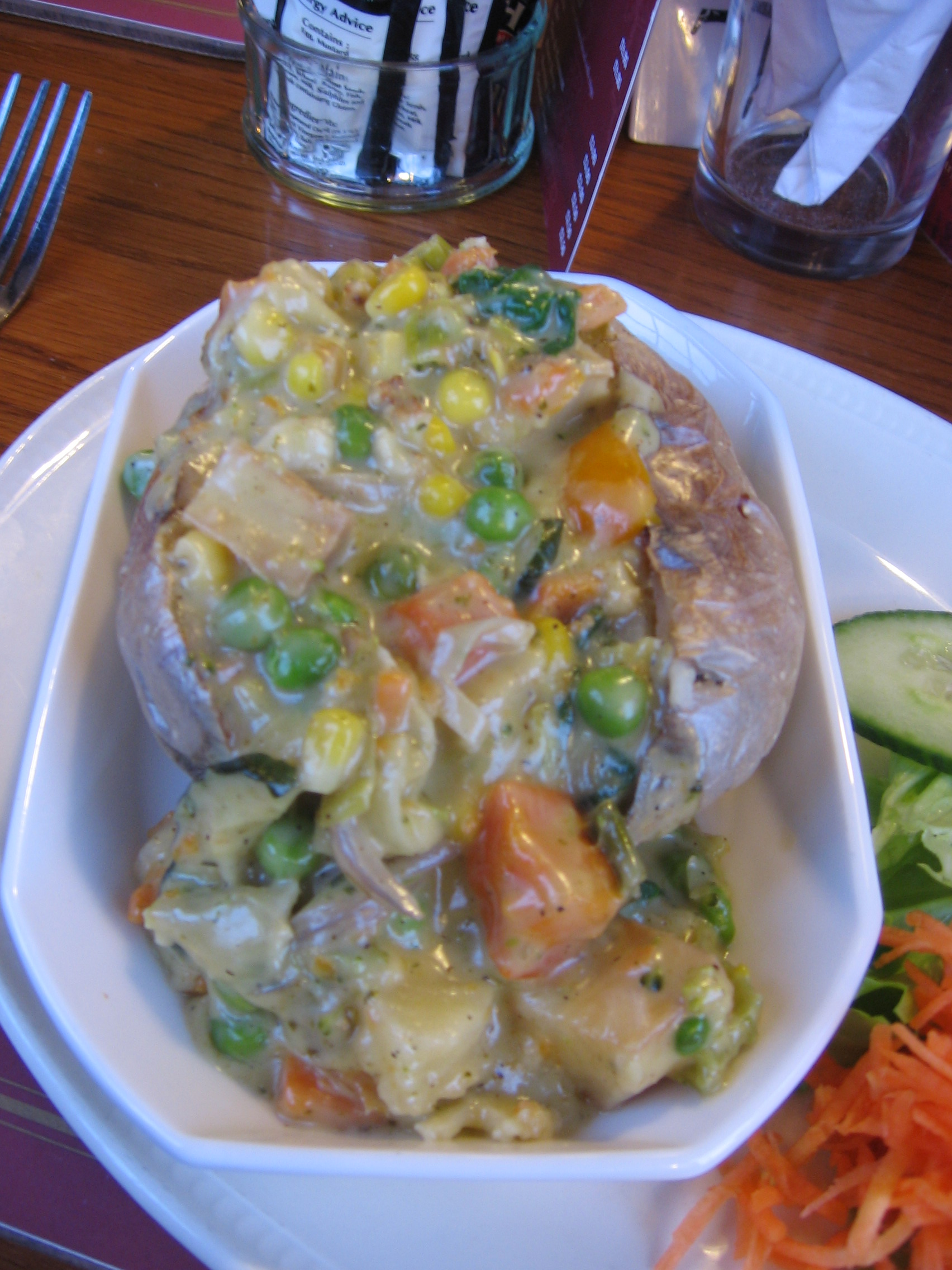 Baked potato, UK, stuffed with pesto vegetables